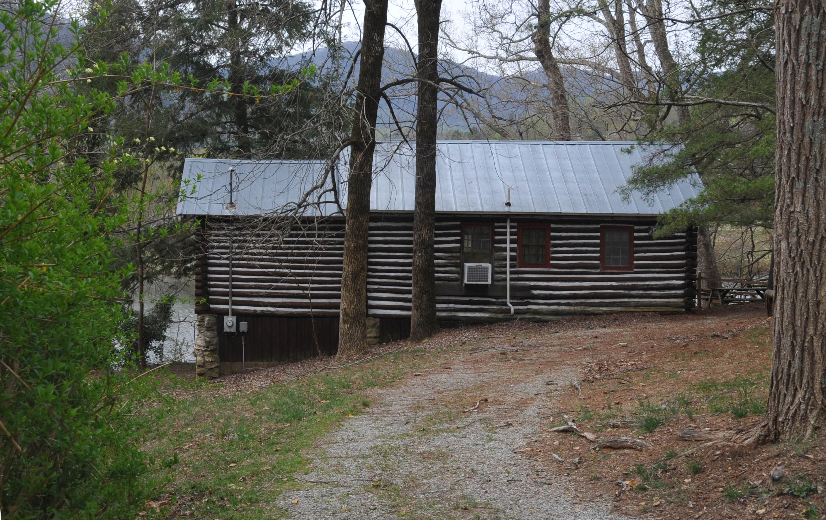 HISTORIC CABINS FOR FAMILIES AND HONEYMOON LOG CABINS ON LAKE LURE NEAR CHIMNEY ROCK STATE PARK